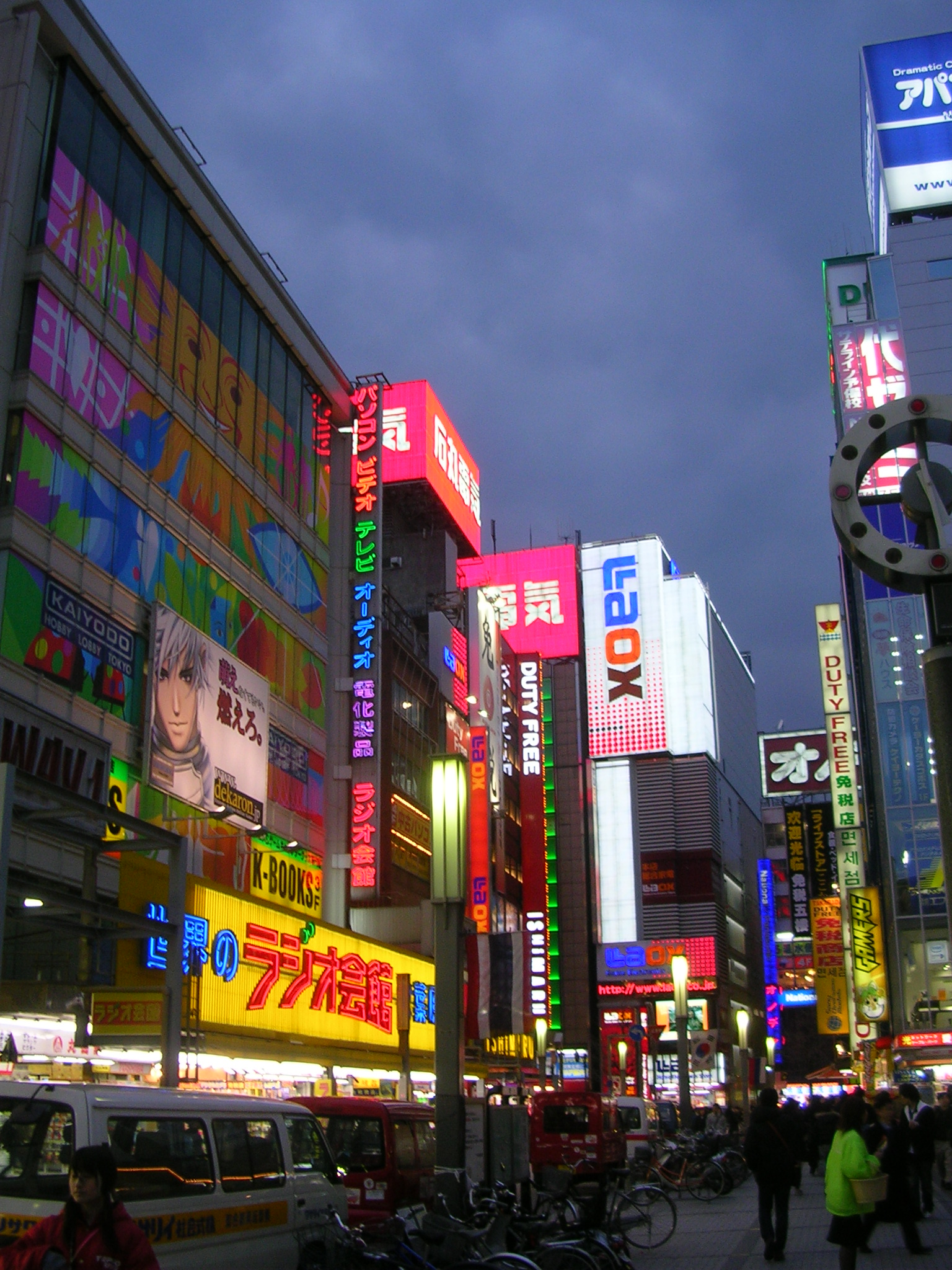 Akihabara, Chiyoda-ku, Tokyo